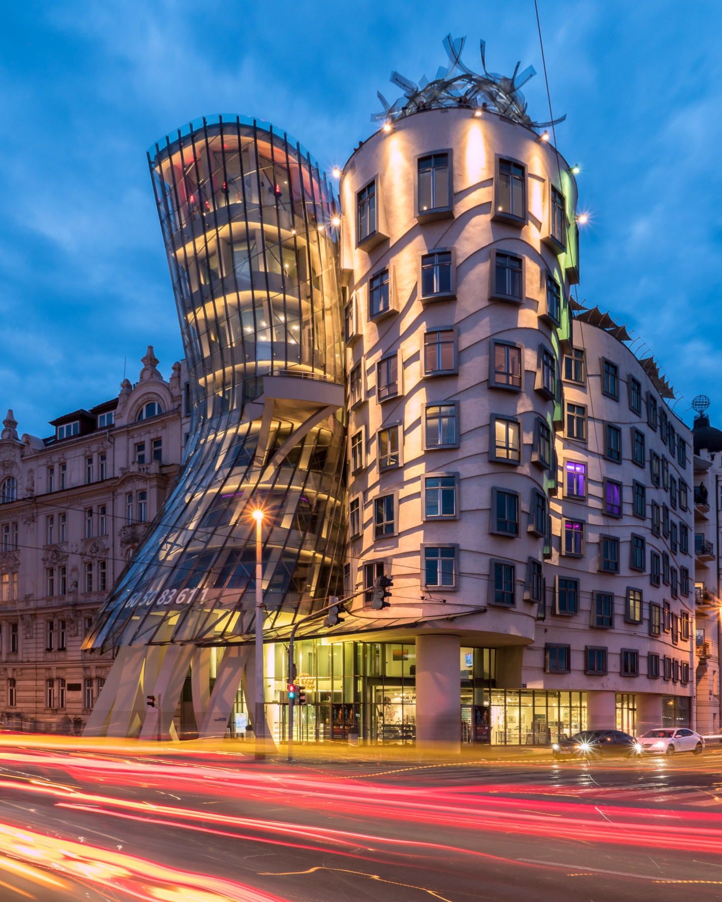 Dancing House, Prague